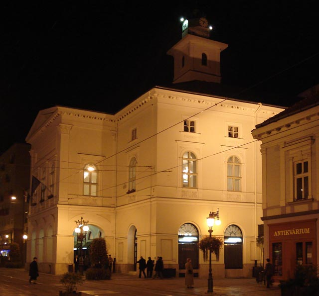 National Theatre of Miskolc by night